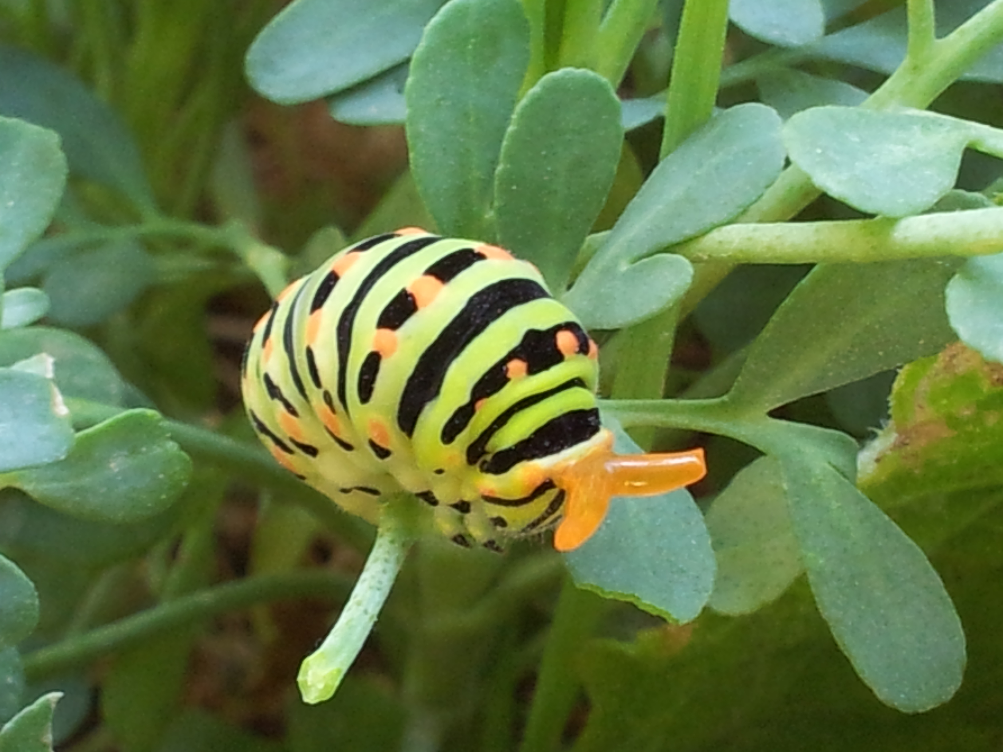 Papilio caterpillar, Jerusalem, Israel